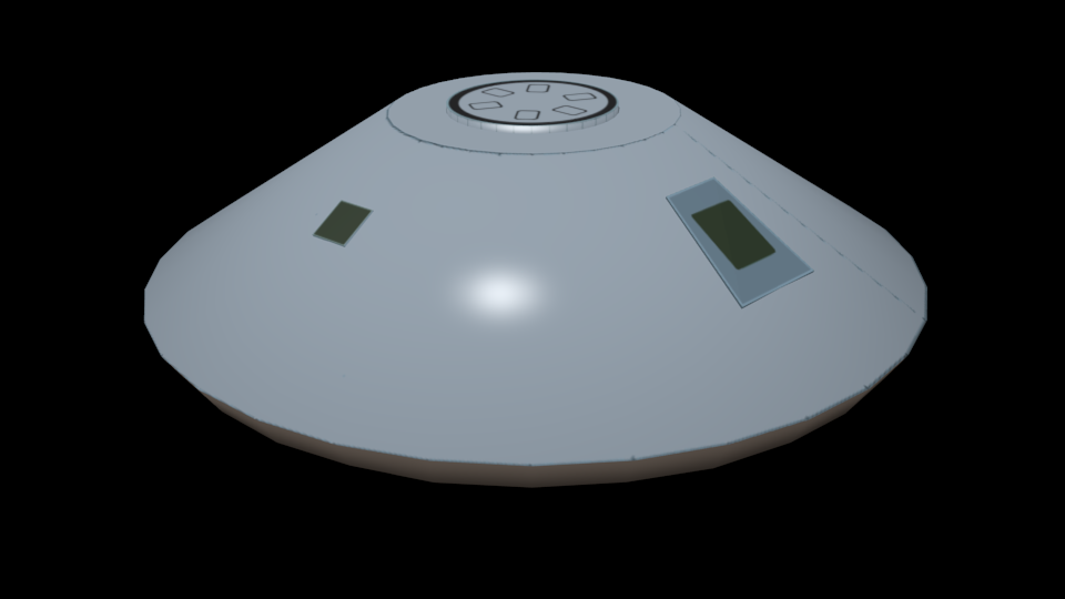 Fuji spacecraft's core module.